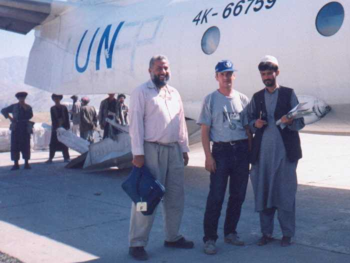 Ahmed Said Khadr's charity prepares a load of emergency supplies for a region is Faisebad that has been hit by an earthquake.